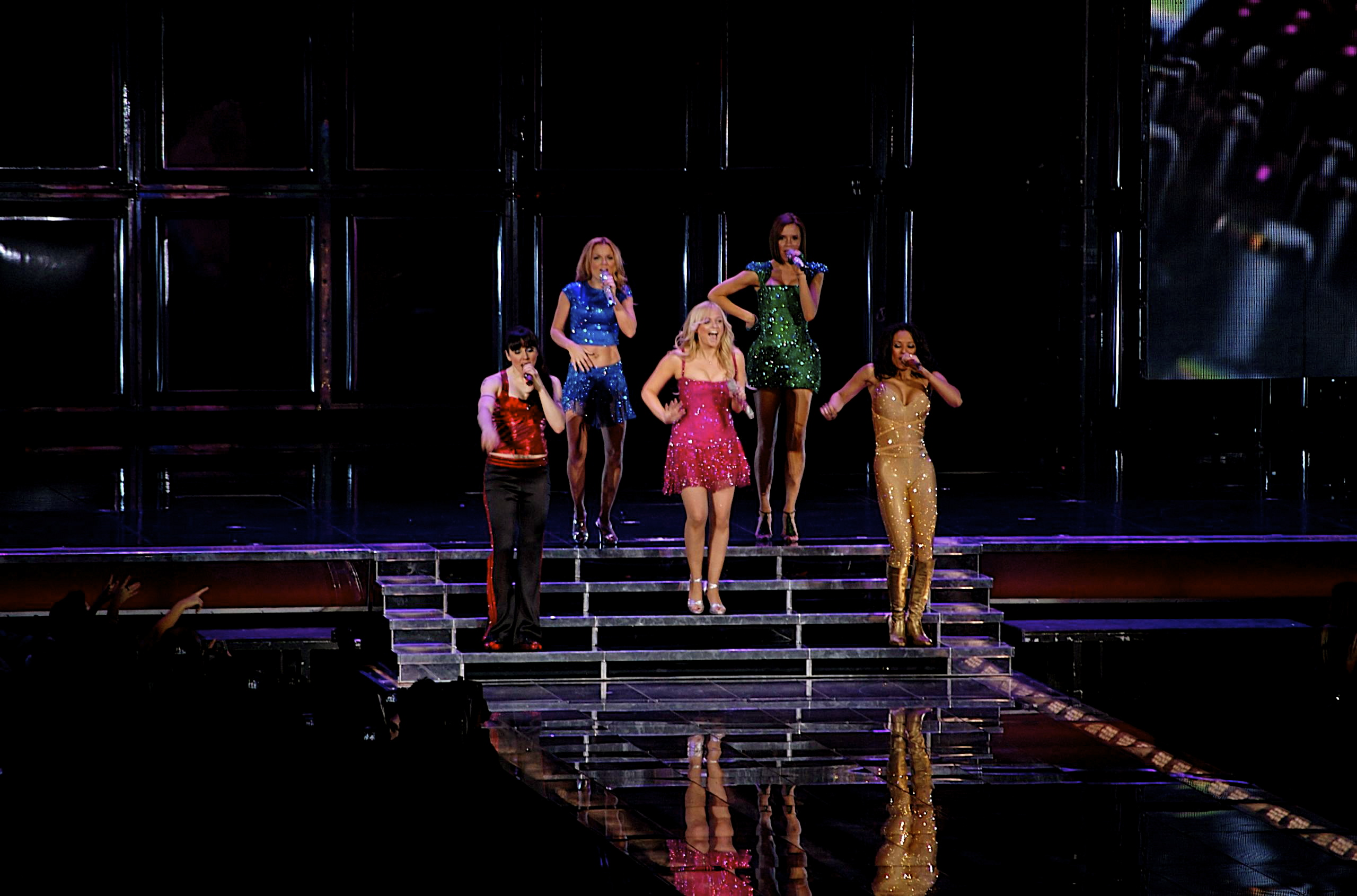 Spice Girls in Toronto Air Canada Center.